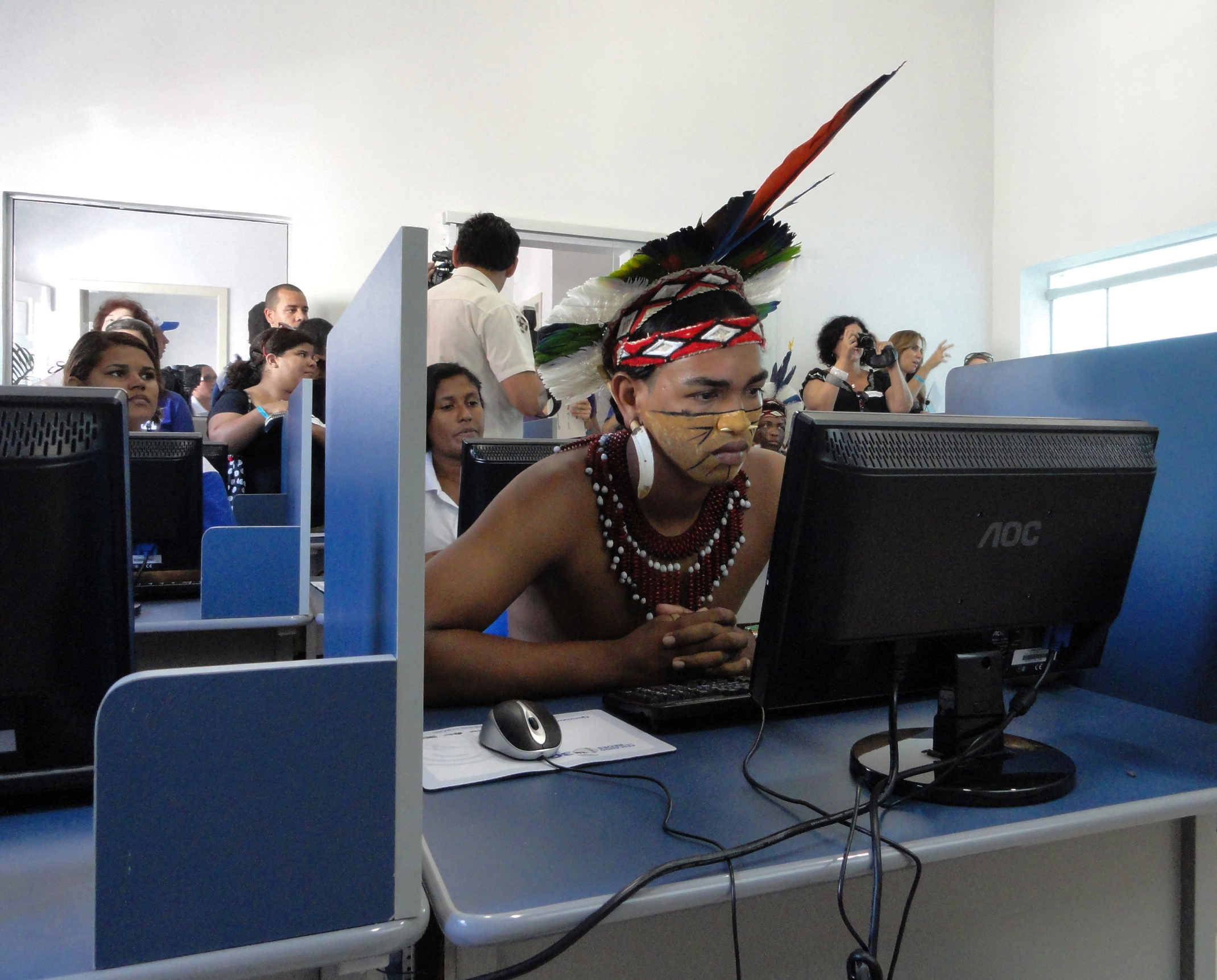 A young Brazilian man checks out the new computer center in the city of Cabrália, Brazil. The center provides broadband access, 3G mobile Internet, and custom applications for managing fishing businesses, equipment, and training. Once trained and properly equipped, local fishermen, including those from the Pataxó indigenous ethnic group, will be able to broker deals with buyers, access weather information, and manage economic activities, all in real-time. The center is courtesy of a partnership between Qualcomm, Vivo, the Brazil Sustainable Environmental Institute, USAID/Brazil, ZTE, and the city of Cabrália.